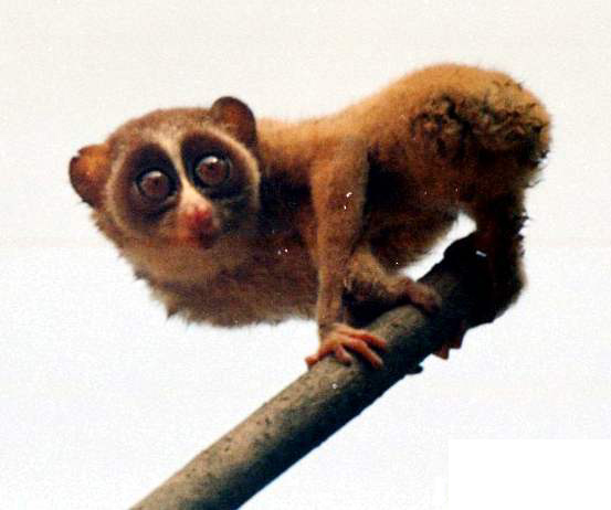 Gray slender loris (Loris lydekkerianus), which was earlier Loris tardigradus lydekkerianus (and the file name reflects the older taxonomy). The specimen should be of the nominate Mysore race and came from near Savandurga.